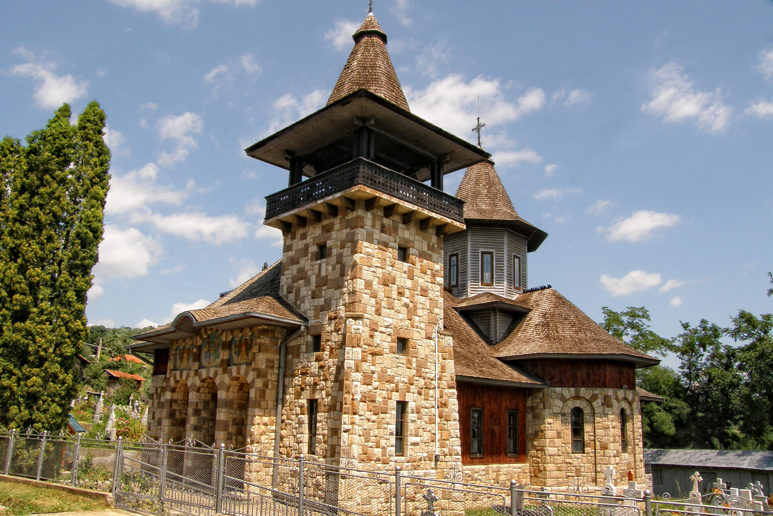 Church Pietriceaua